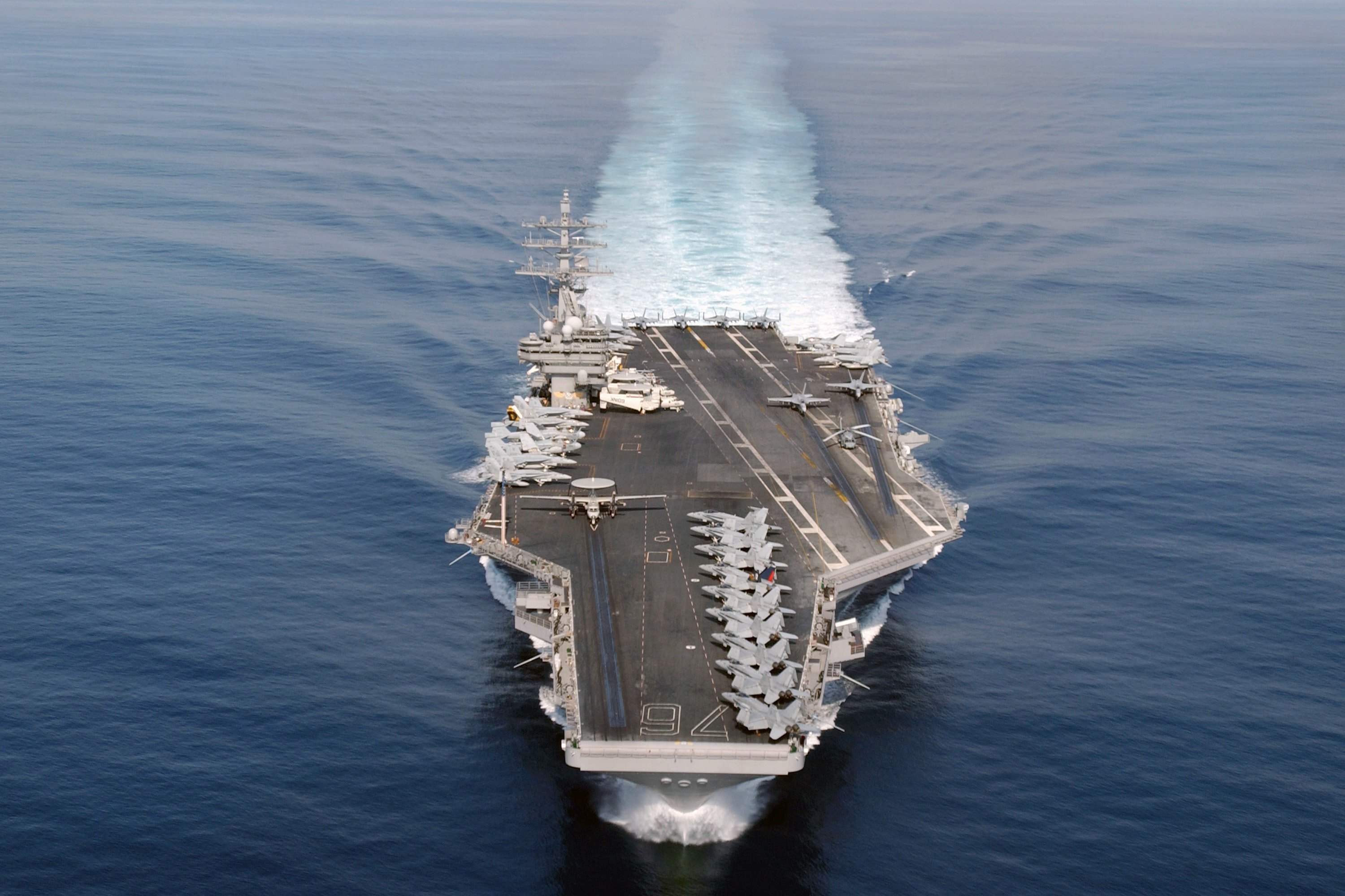 050725-N-0610T-048 The US Navy (USN) Nimitz Class Nuclear-powered Aircraft Carrier USS RONALD REAGAN (CVN 76) performs a high speed run during operations on the Pacific Ocean. Reagan and embarked Carrier Air Wing Fourteen (CVW 14) are currently underway conducting Tailored Ships Training Availability (TSTA).